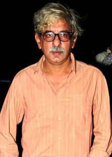 Sriram Raghavan at the screening of Shubh Mangal Savdhan.